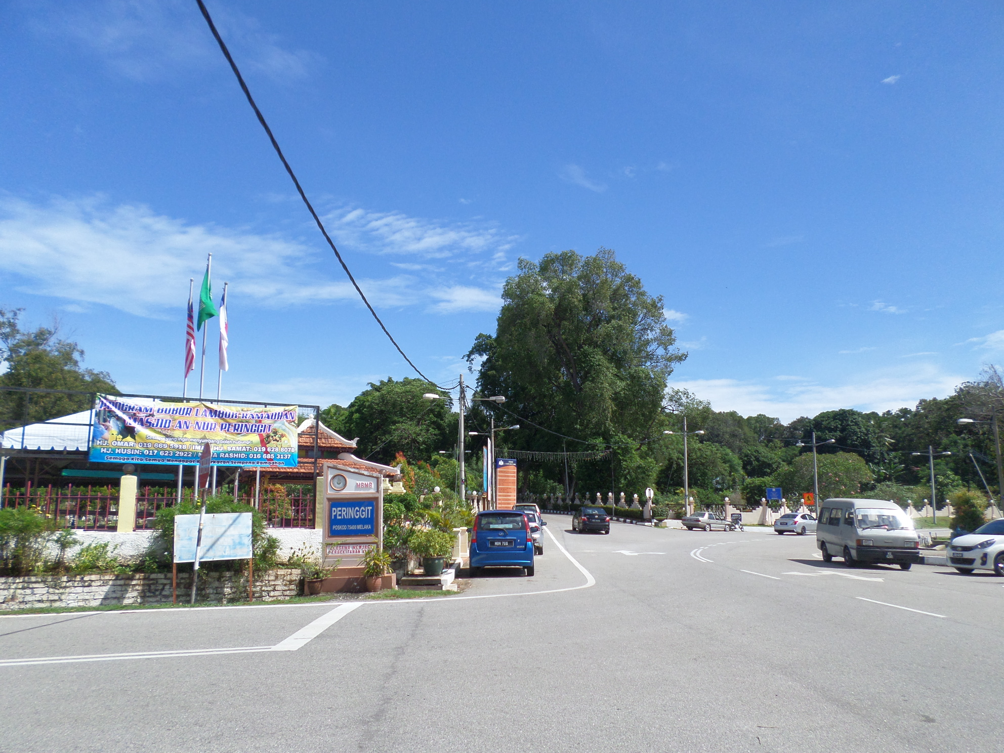 Peringgit, Malacca, MalaysiaBahasa Melayu: Peringgit, Melaka, Malaysia